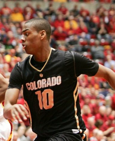 Colorado v Iowa State basketball